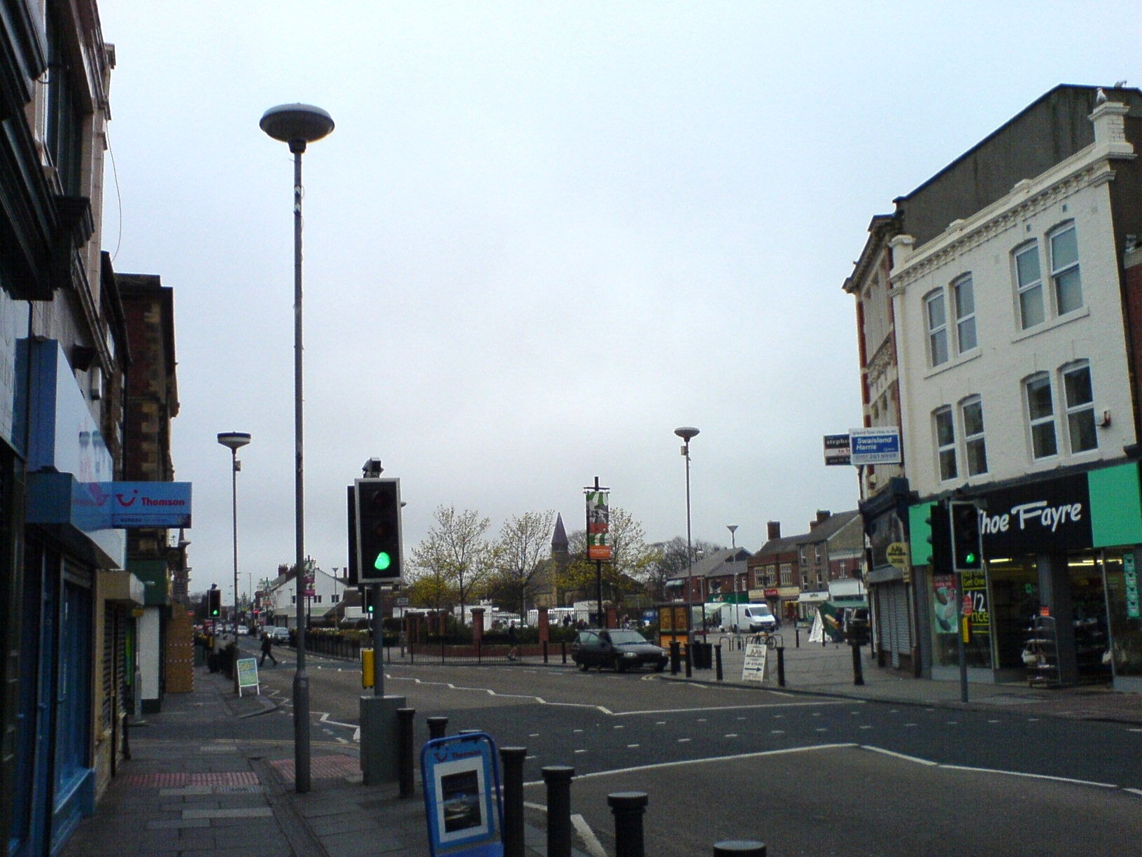 The town centre of Blyth, Northumberland.